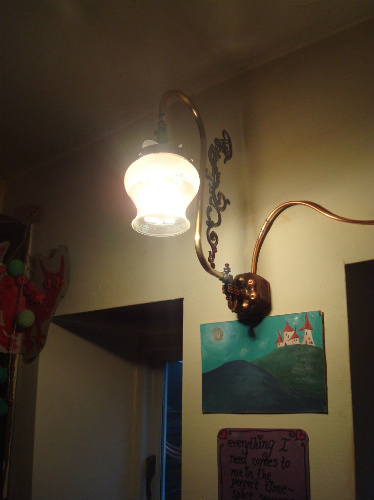 This bright gas lamp has three mantles and is lighting the kitchen in the contemporary Gas Lighting installation at my home in Great Britain.